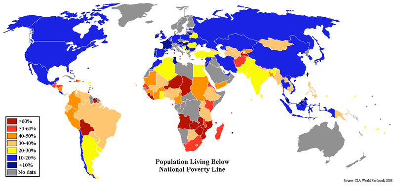 CIA poverty stats [1]